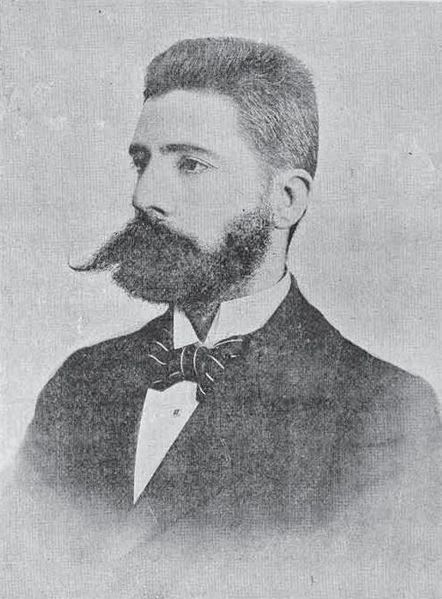 Portrait of Ivan Hadzhinikolov, founder of IMARO